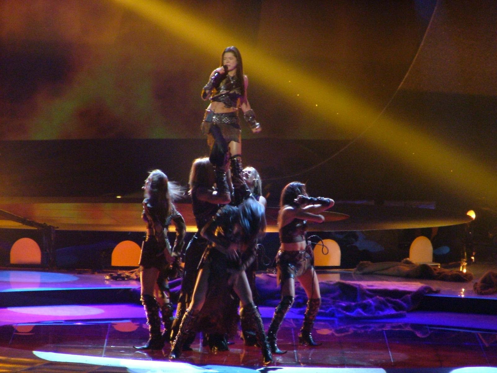 Eurovision Song Contes 2004 - Istambul